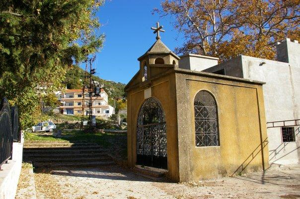 Virgin Mary's Armenian chapel in Esguran village, Kesab Municipality, Latakia District, Latakia Governorate, Syria.